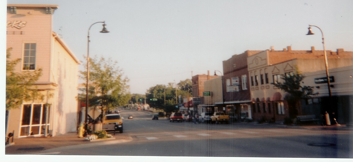 A view of downtown Papillion, Nebraska, USA